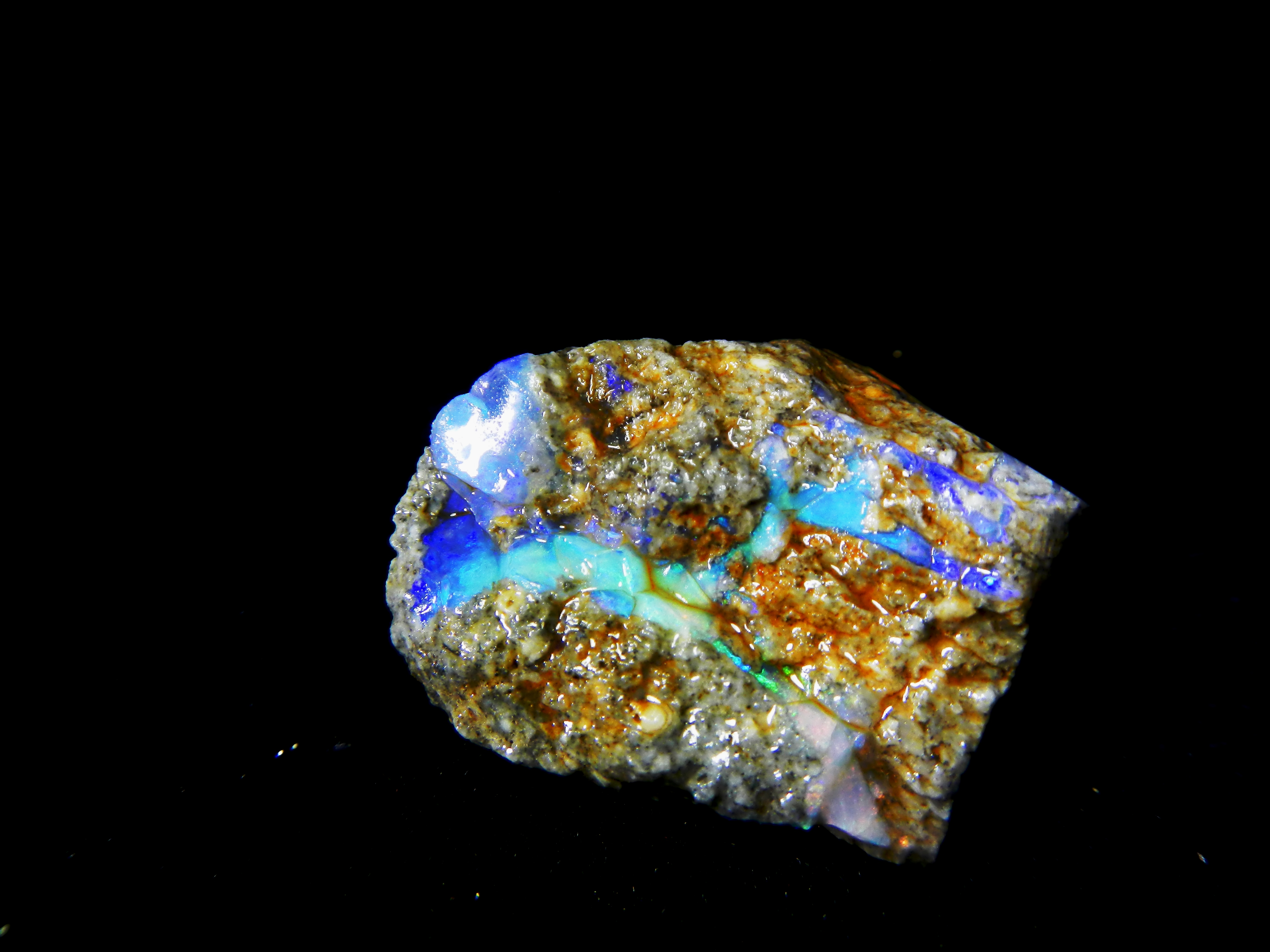 Slovak opal matrix